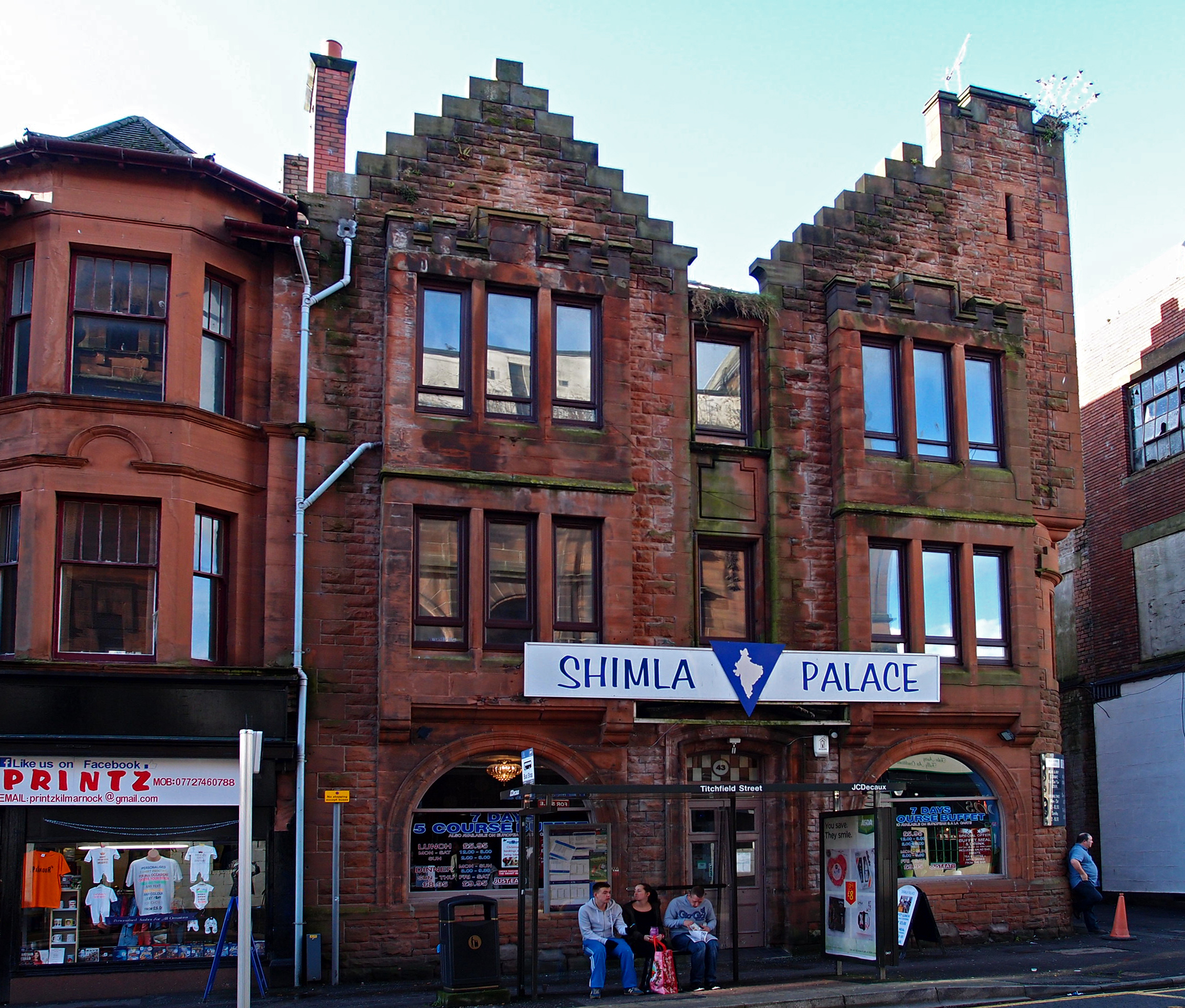 42 Titchfield Street, Kilmarnock